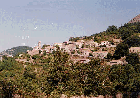 Vue of the Corsican village:Cristinacce